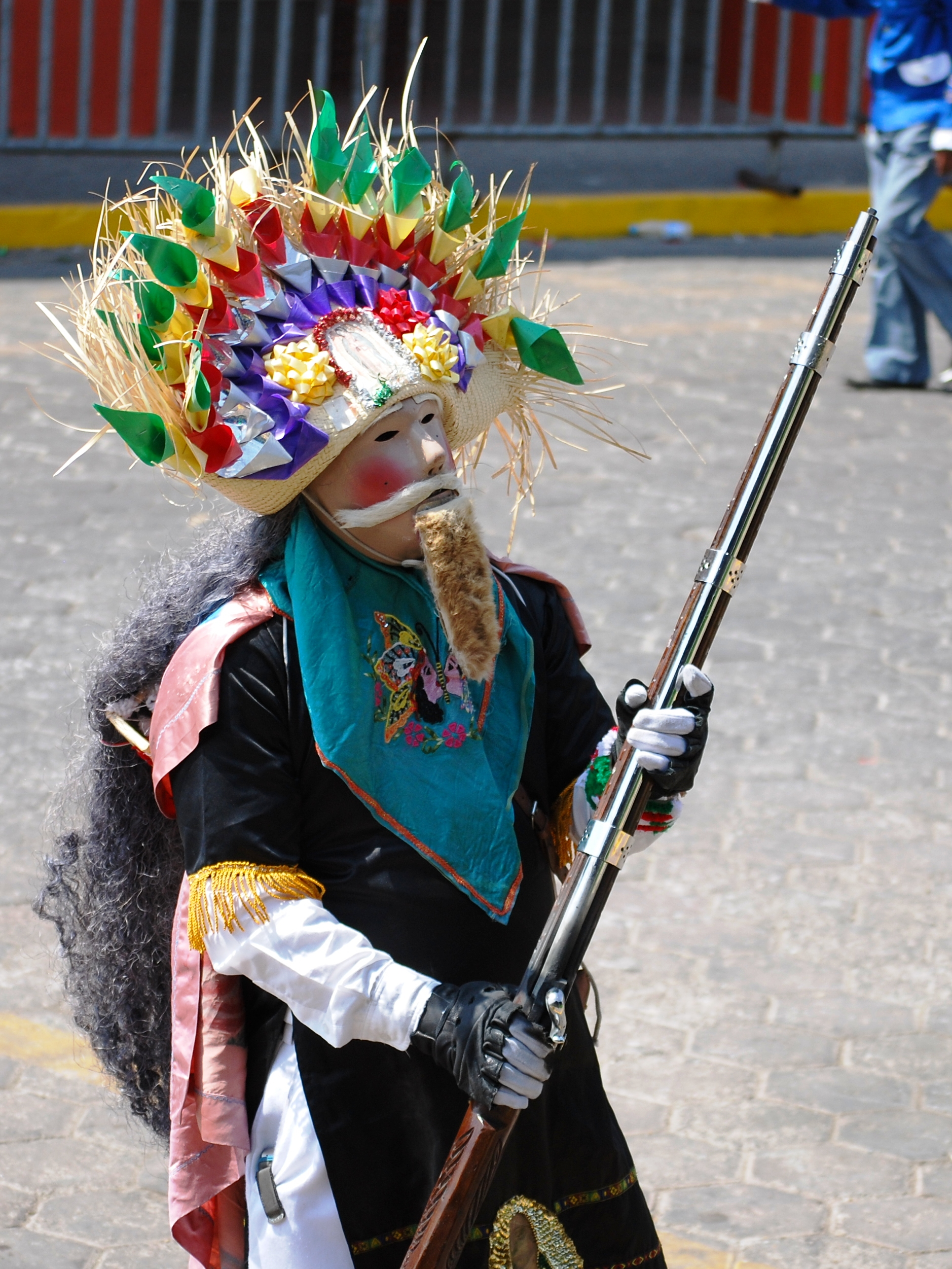 Serrano with rifle at the Carnival of Huejotzingo, Puebla, Mexico